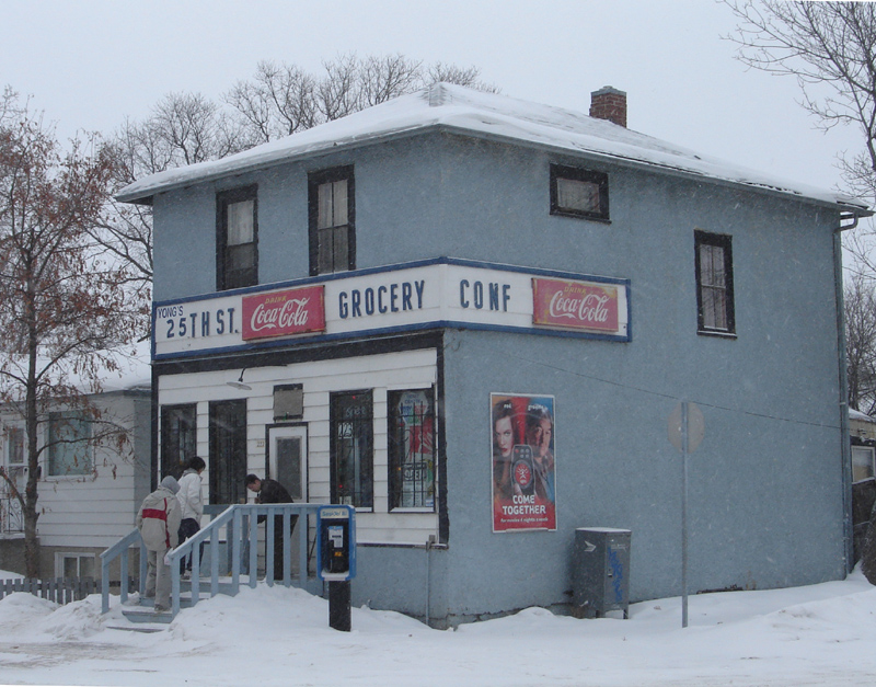 25th Street Grocery Caswell Hill, Saskatoon, Saskatchewan, Core Neighbourhoods SDA, Saskatoon, Saskatchewan, Canada